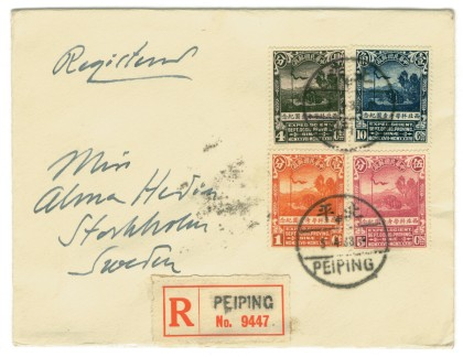 Envelope of a letter of Sven Hedin to his sister Alma Hedin with the stamps of the Sino-Swedish Expedition in China 1927-1933 (China: Michel-No. 246 - 249)